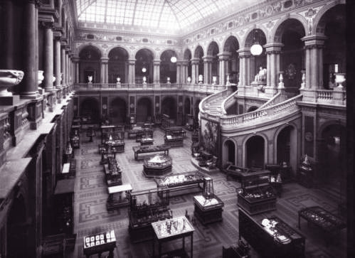 Central hall of the Stieglitz Museum in 1904.